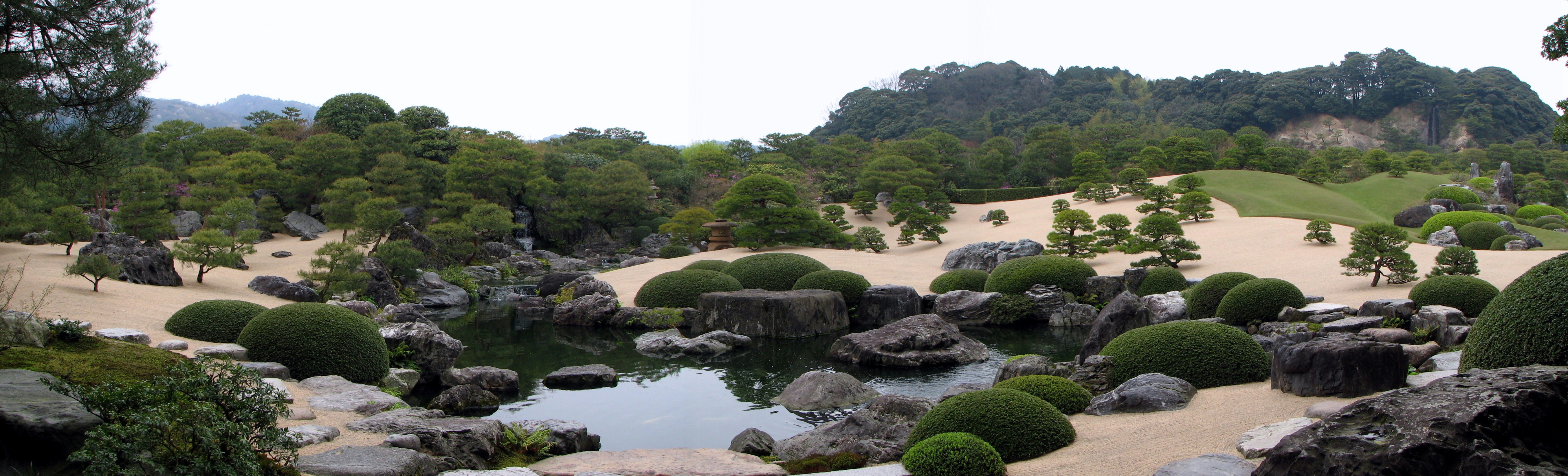 Adachi Museum of Art Garden, Yasugi City, Shimane Prefecture, Japan